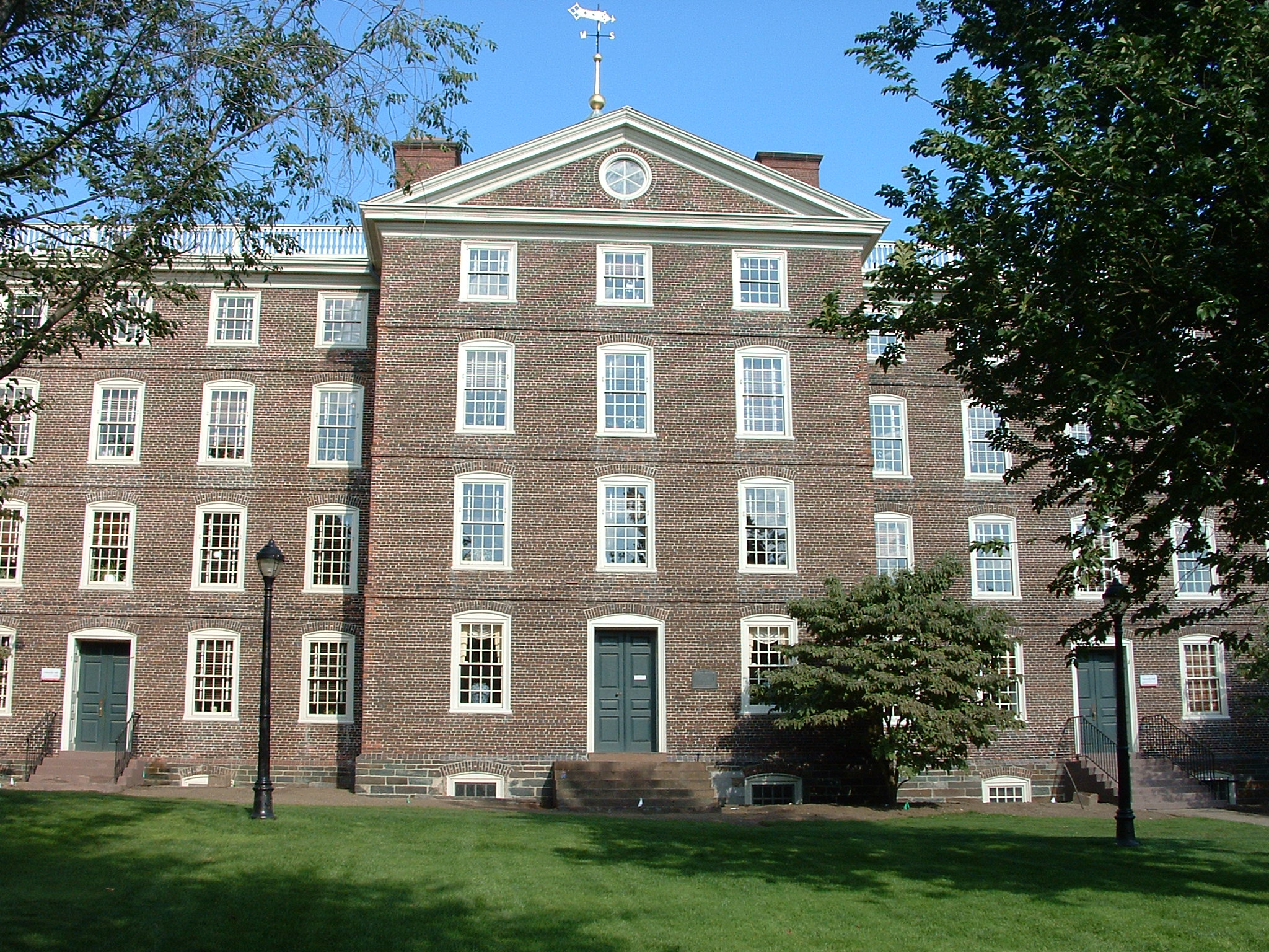 Brown University - University Hall